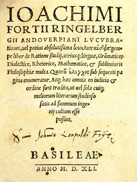 Title page of 1541 'Basel' edition of 'Lucubrationes...' by Joachim Sterck van Ringelberg(h), or Joachim(us) Fortius Ringelberg(ius), or Ringelbergius Antverpianus